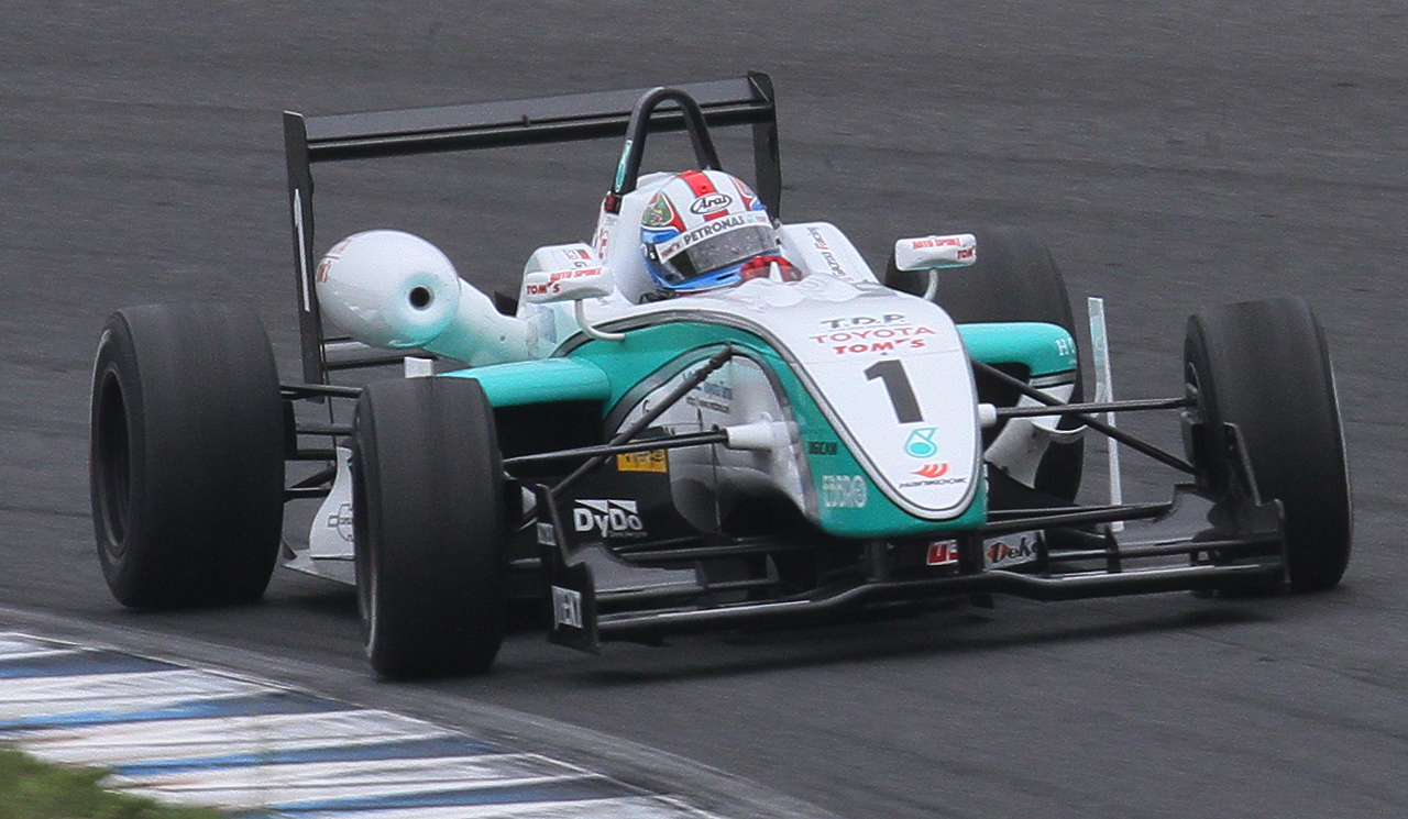 All-Japan Formula Three 2010 Motegi round: Yuji Kunimoto (Petronas Team TOM'S) leading the race.